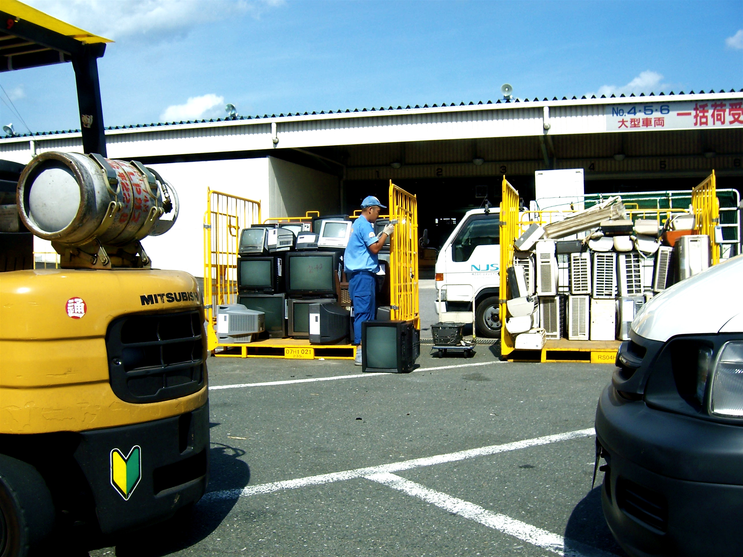 Okazaki city's recycling program